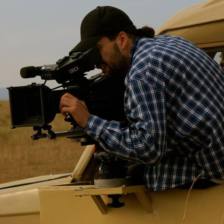 Timo Joh Mayer filming